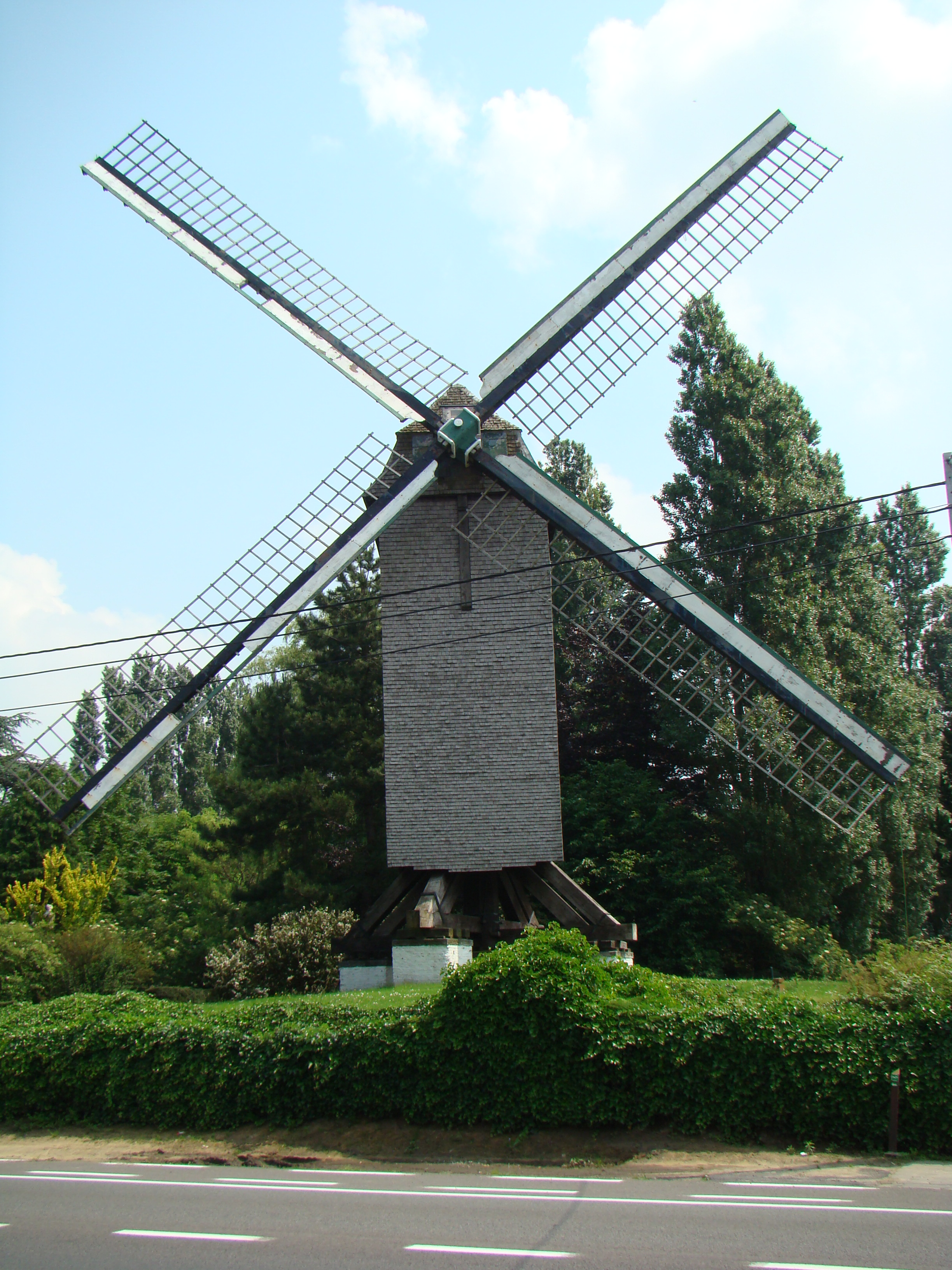 Windmill Stokerijmolen Kuurne (West Flanders, Belgium)